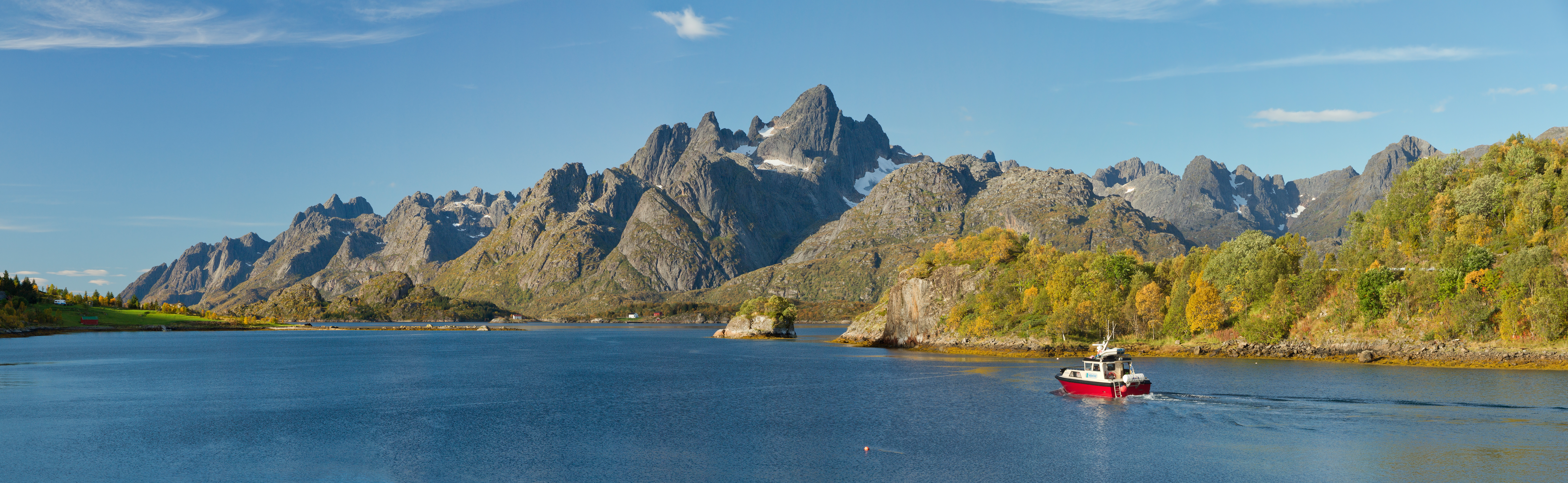 A view over Tennfjorden towards Raftsundet and mountains of Austvågøya (including Trolltindan group) from Hinnøya, Norway in 2015 September.